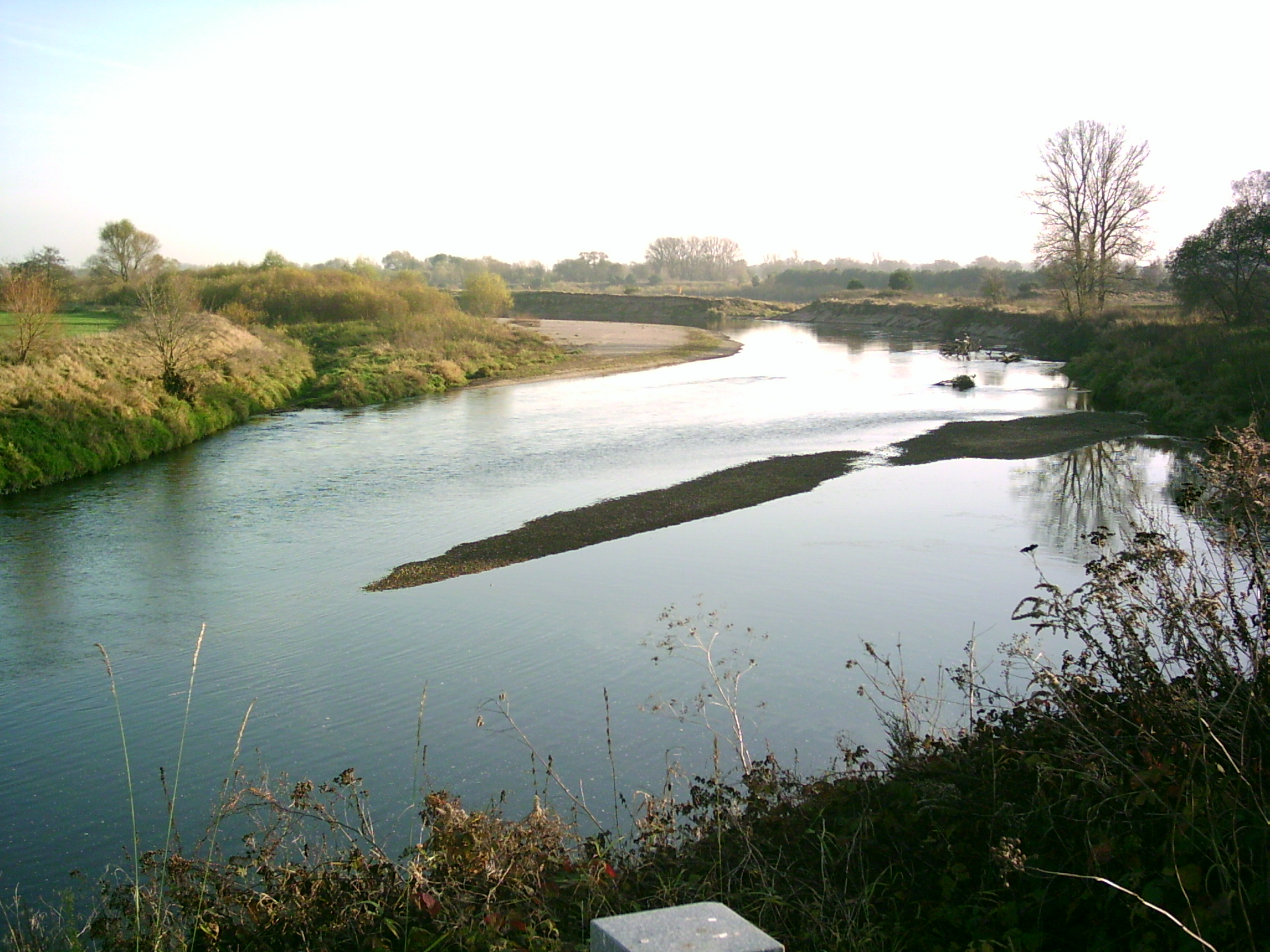 Der Fluss Mulde bei Bad Düben